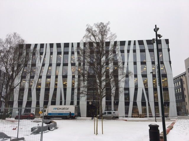 Nydalsveien 24